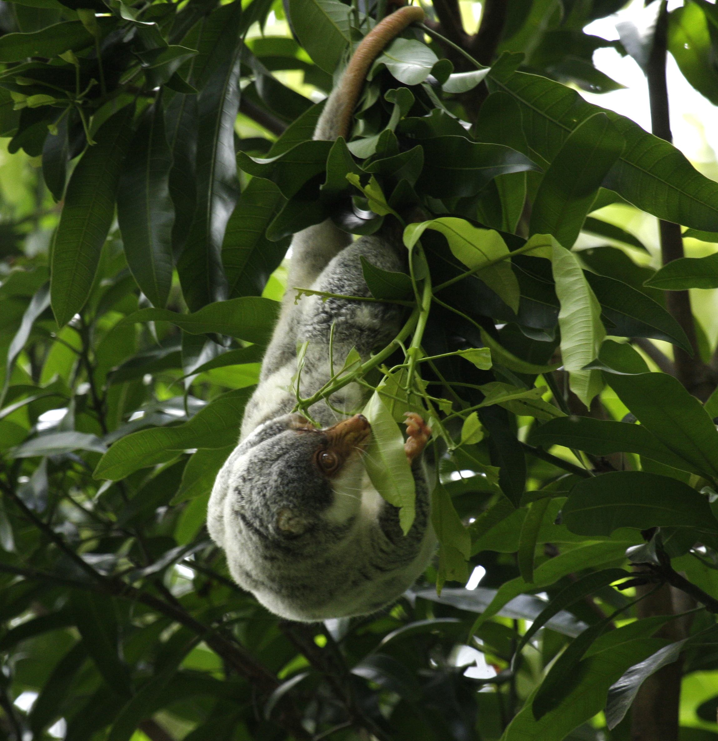 Common Spotted Cuscus (Spilocuscus maculatus) Iron Range NP, N.Queensland, Australia